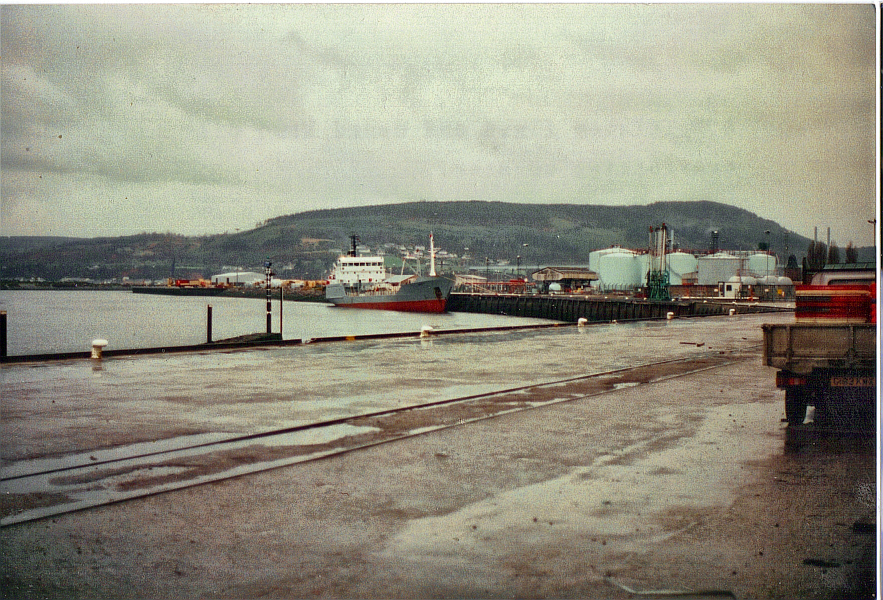 A picture I took Inverness harbour in 1999